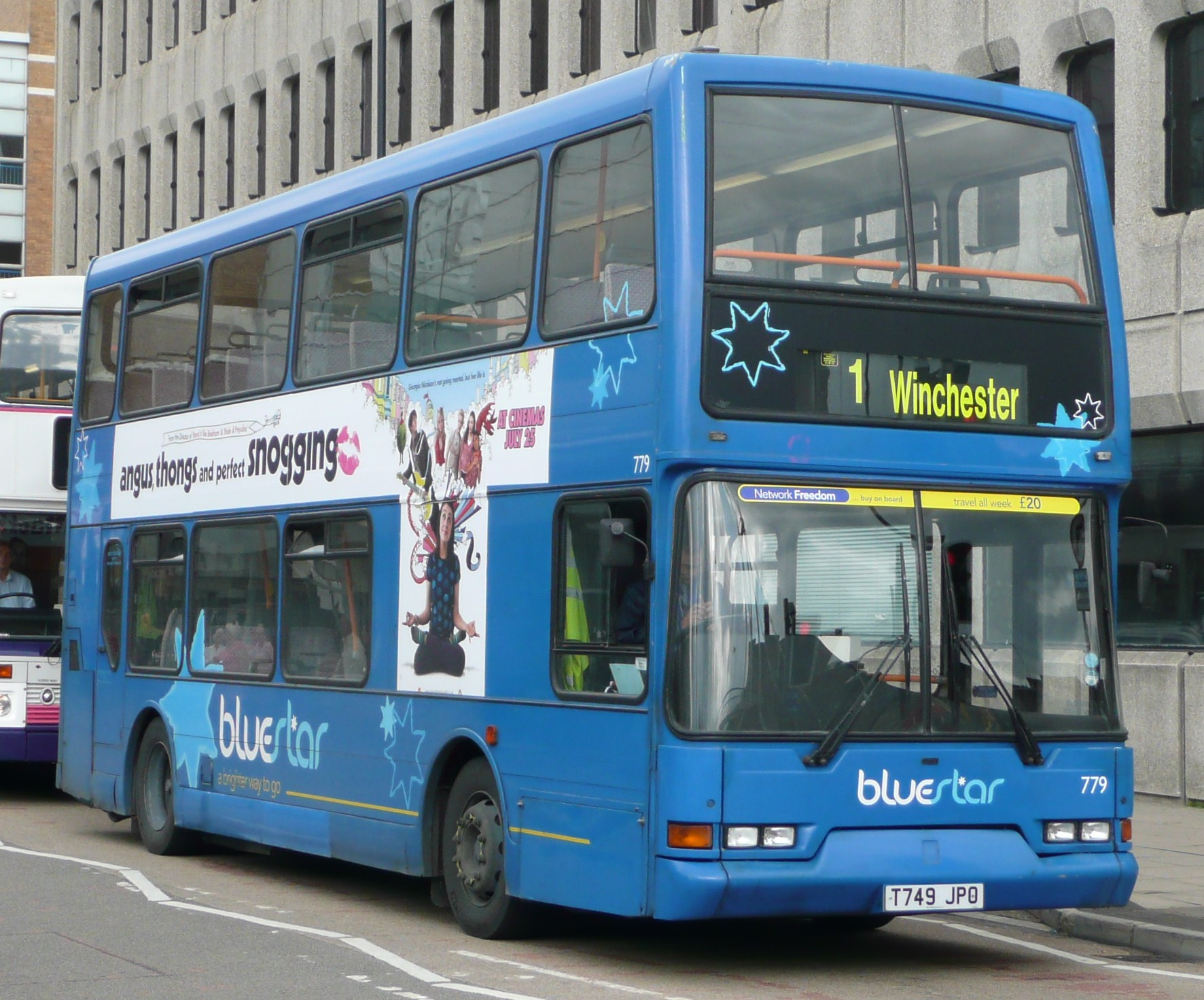 A Dennis Trident/East Lancs Lolyne in Southampton, England. It is Bluestar's 779 (T749 JPO), on route 1.